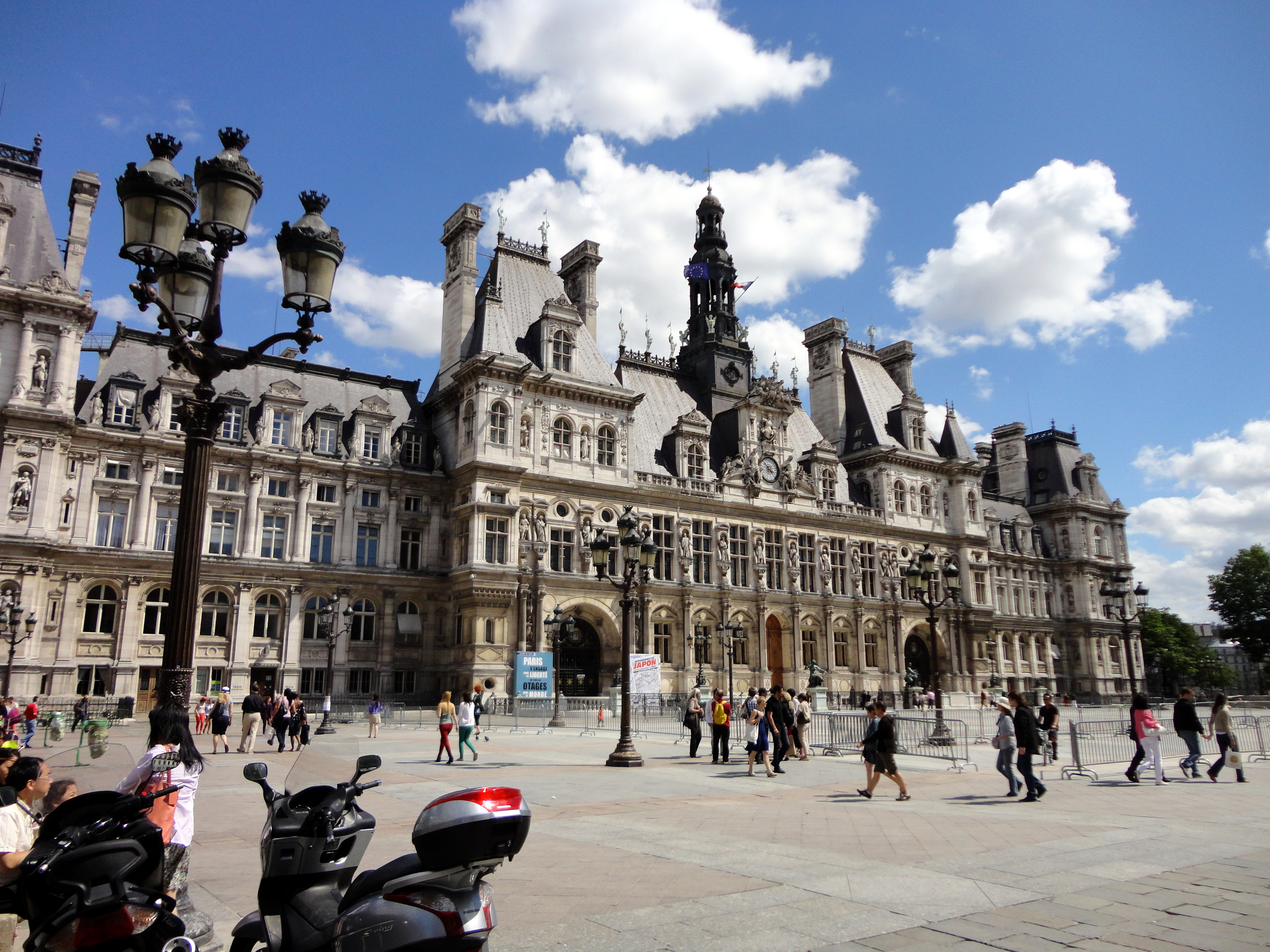 Paris Street